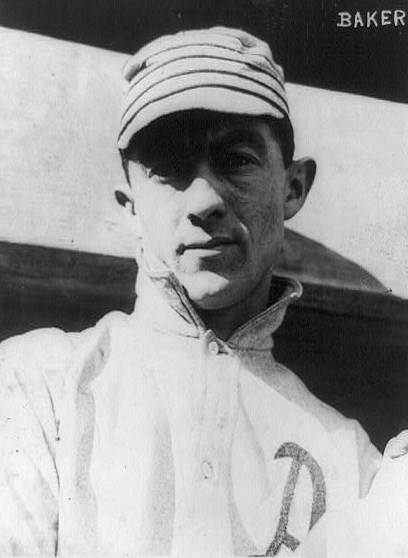 John Franklin "Home Run" Baker, Phila A's player, 1914